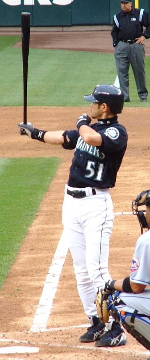 Ichiro's routine pre-batting stance. Taken by the uploader on June 17, 2005 at Safeco Field, Seattle.